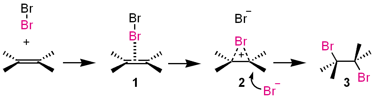 Description: Mechanism for electrophilic addition of Bromine to alkenes. Source = Selfmade. Date = 16 June 2006. Made with ChemDraw.